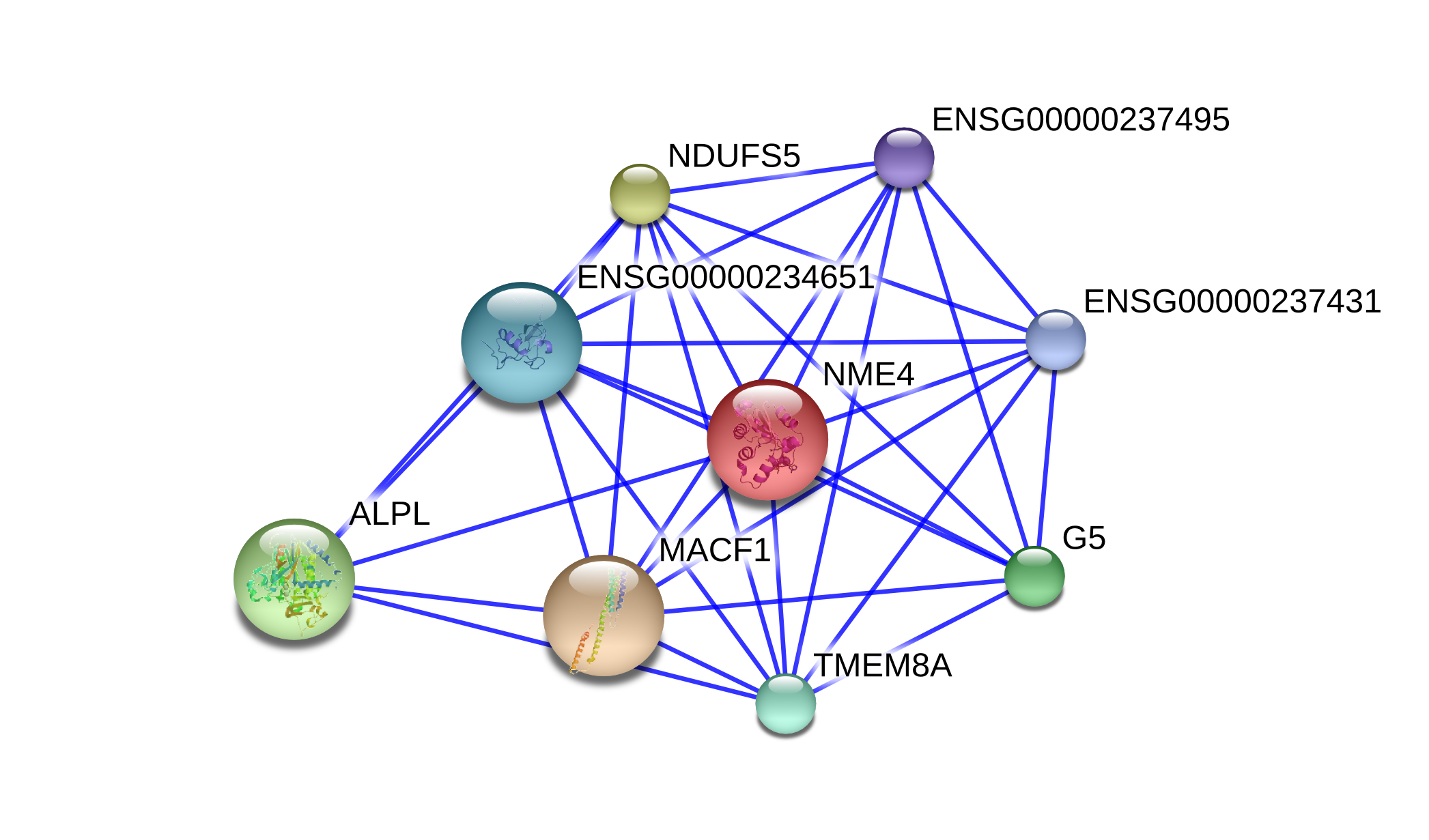 The figure depicts the predicted protein interactions of TMEM8A in humans